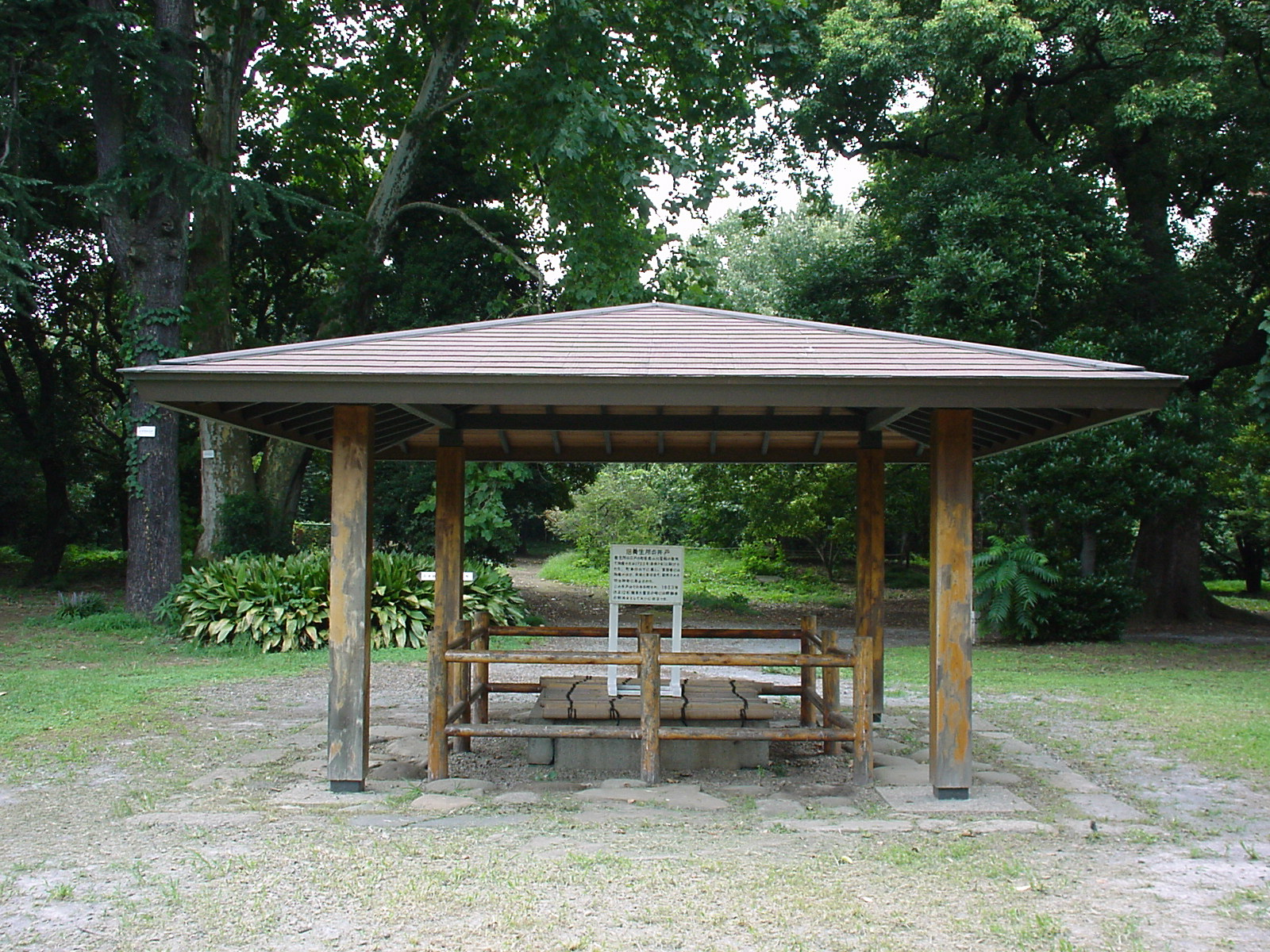 Old water well once used by 小石川養生所 (Koishikawa Yojosho), an old Japanese hospital established in 1722 (located in Koishikawa, Bunkyo-ku, Tokyo, Japan).